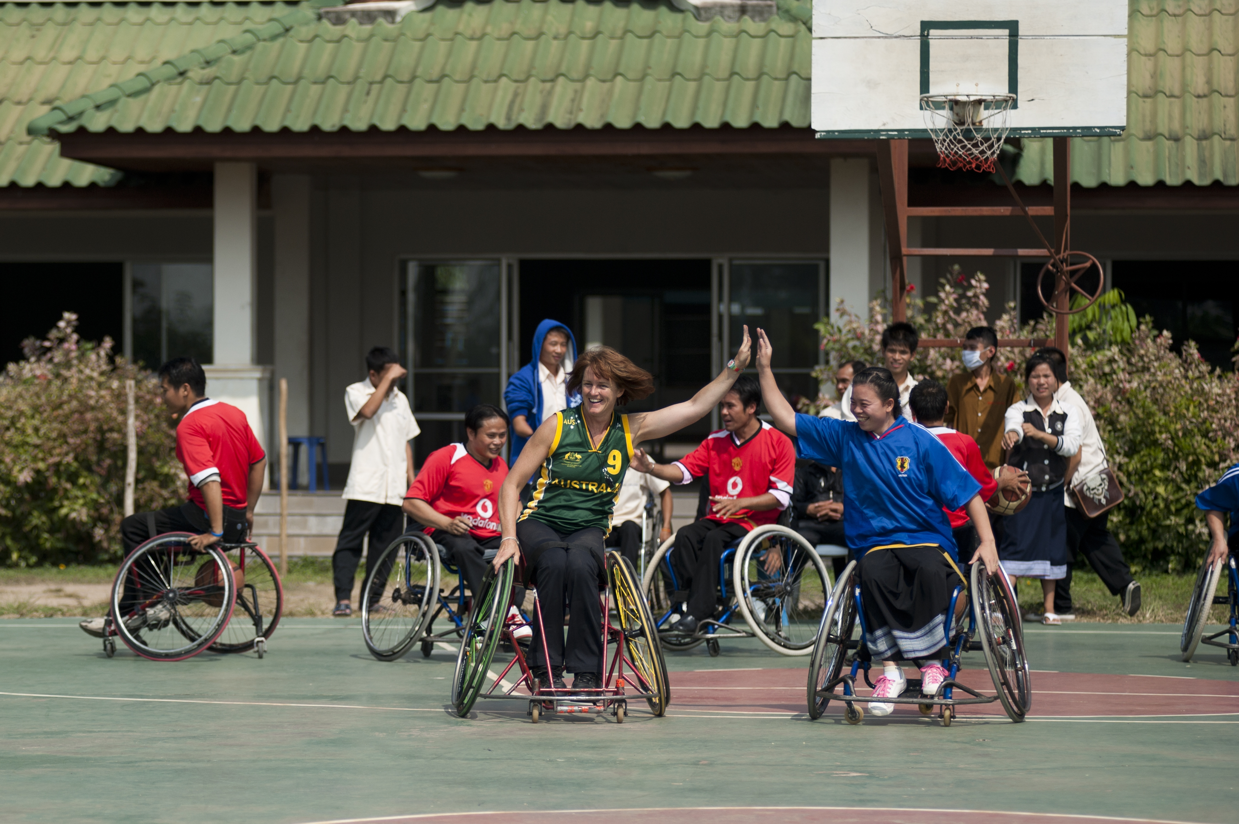 Australian paralympian Liesl Tesch conducted wheelchair basketball clinics in Vientiane to help raise awareness of disability and bring attention to UXO victim assistance in laos. Laos 2010. Photo: AusAID